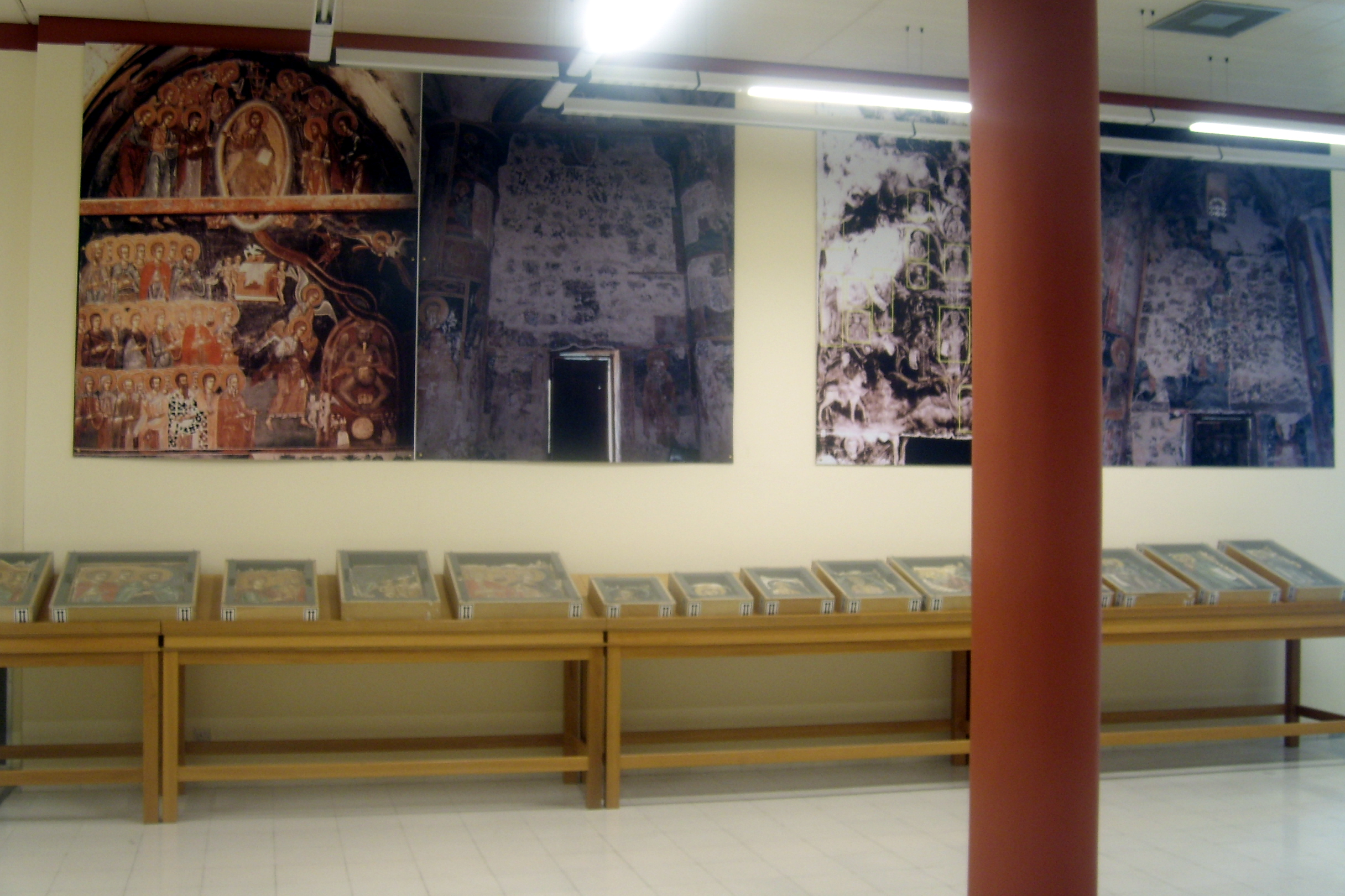 Frescos stolen from a church after the invasion of the Turkish army. Given back from German authorities to the Church of Cyprus.